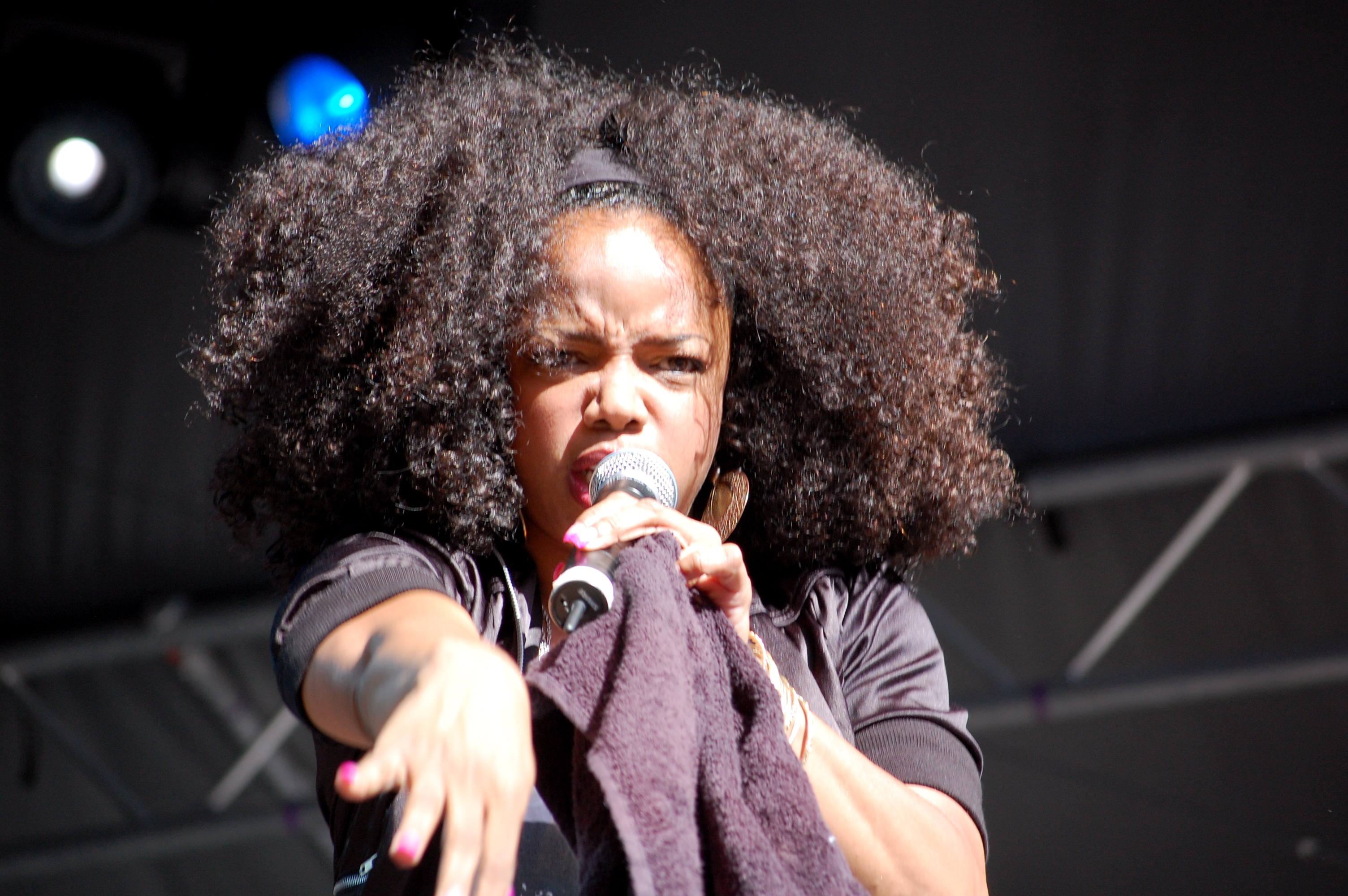 Leela James live in Stockholm Jazz Festival 2009.